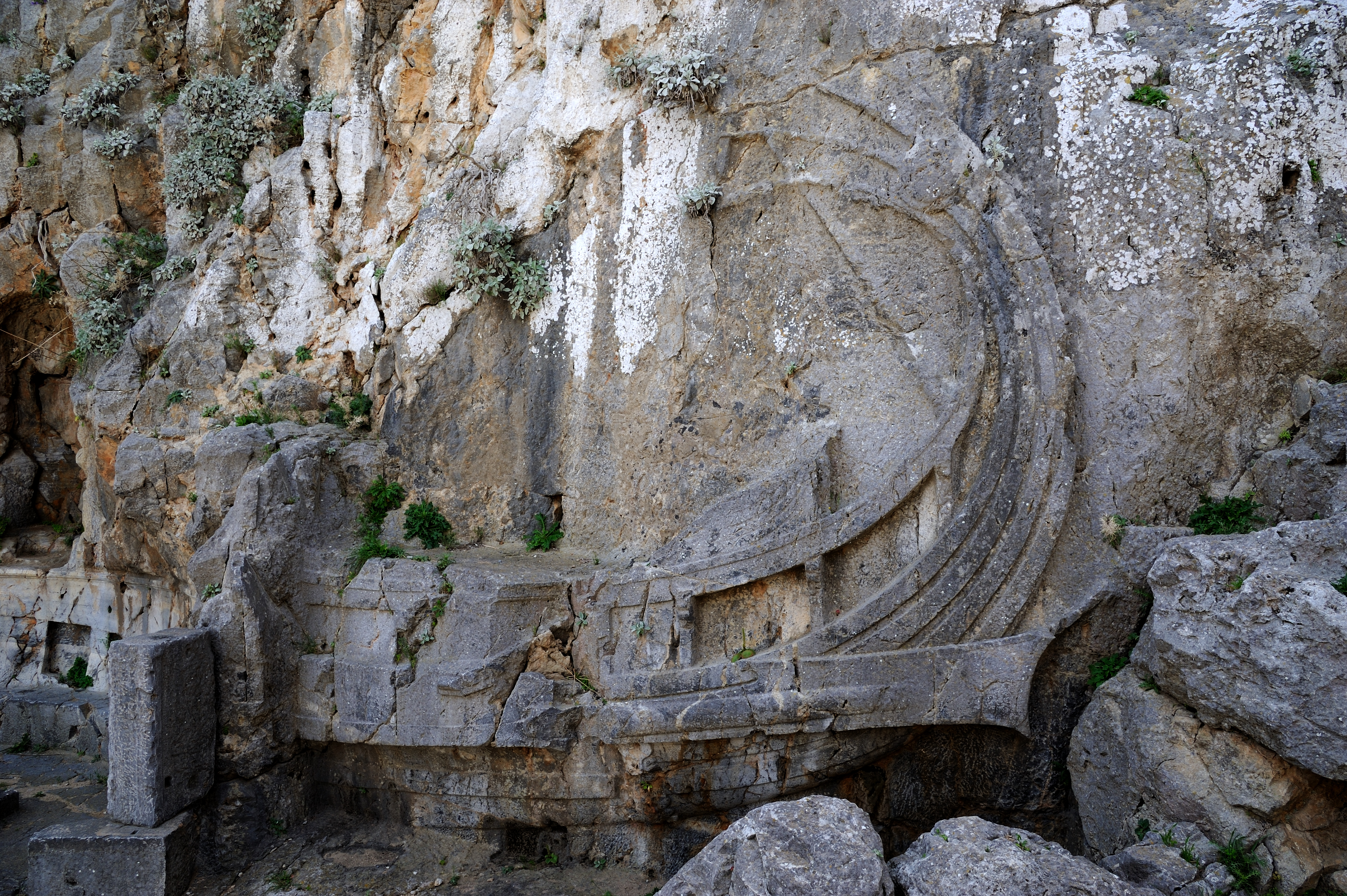 Relief of a Rhodian trireme (warship) cut into the rock at the foot of the steps leading to the Lindos (Greece) acropolis. On the bow stood a statue of General Hagesander, the work of the sculptor Pythokritos. The relief dates from about 180 BC.